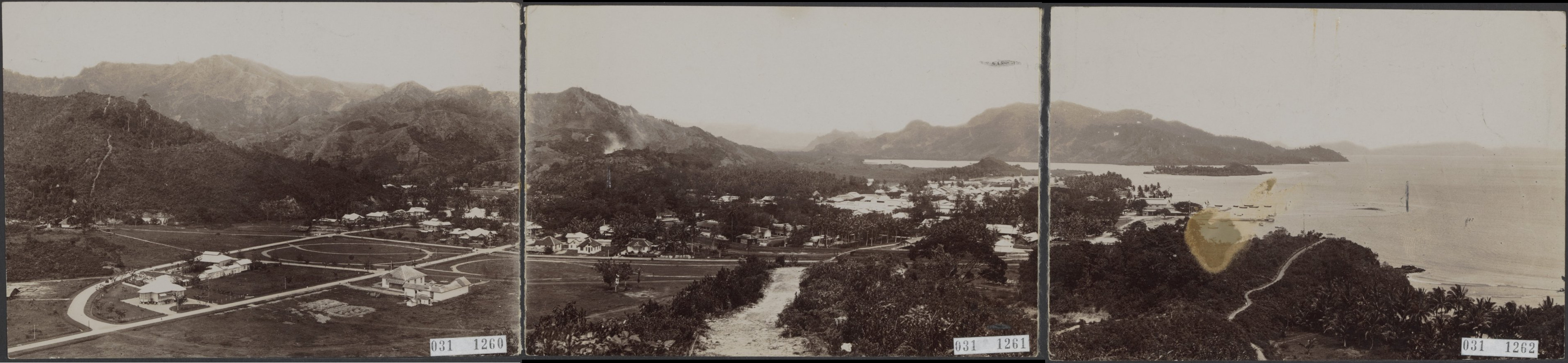 View of Sibolga (the major settlement of Tapanoeli, on the west coast of Sumatra). The road through the mountains turns left towards Tarodoeng. This road rises to 1100 meters and then drops to 926 meters at Tarodoeng. In the middle of the foreground is the barracks of the Armed Police, the Inspector's Office, the Water Office, and the Notary Office. In the background right are the European and native commercial districts. Note that by 'native' they mean Indonesian local and Chinese. There was a major street that was Chinese-centric, this had a gate and is documented in other photos on Wikipedia uploaded from the Tropenmuseum. This image is a reassembled panorama taken by an unknown, presumably Dutch photographer in 1928. The source images were preserved at the Dutch National Archives who digitized them in 2010. The image files were taken from publicly available images at